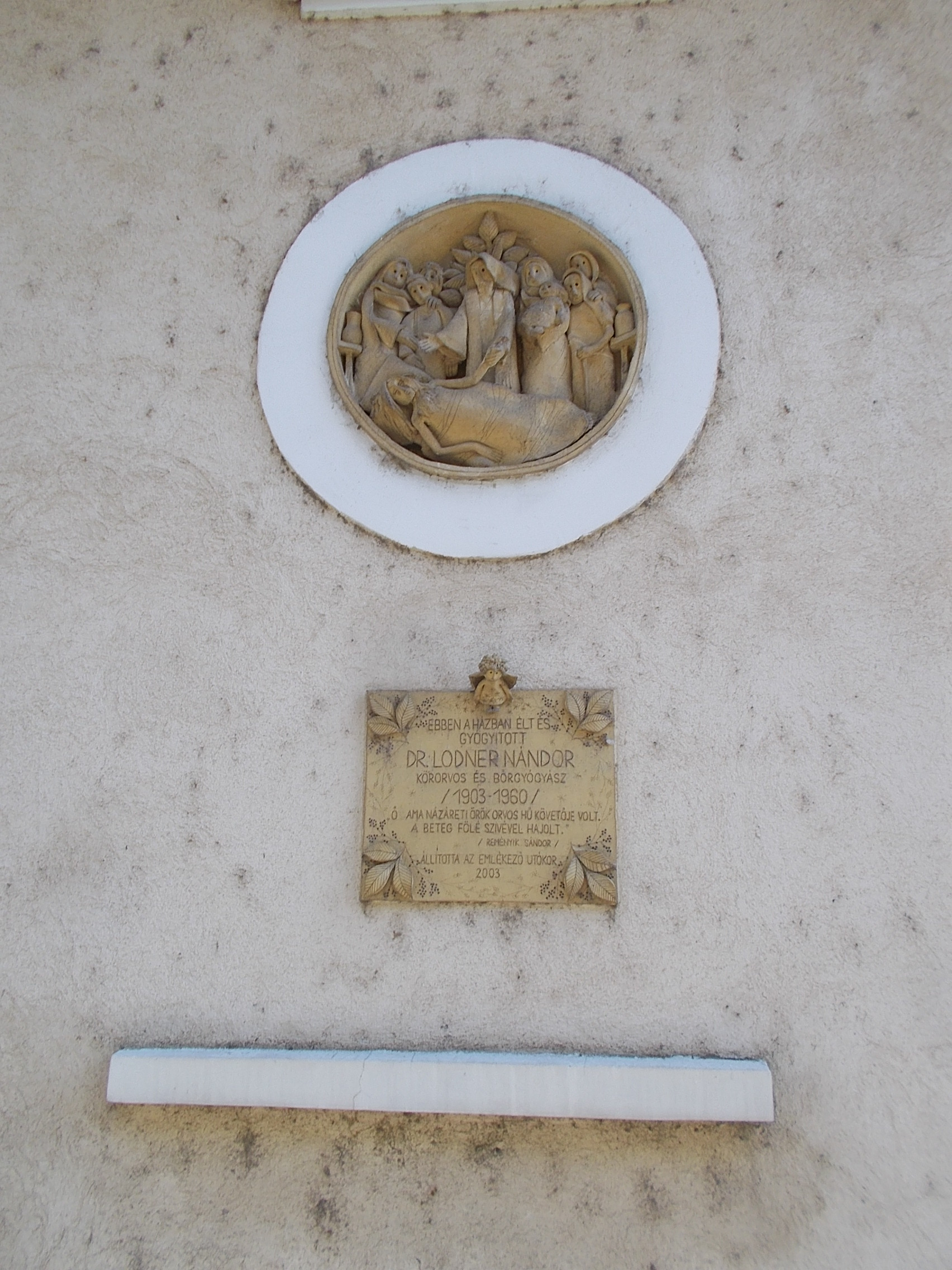 Nándor Lodner by Etelka Csavlek (2003 ceramic relief) on a listed house facade. - 3 Csobánc utca, Downtown, Tapolca, Veszprém County, Hungary.